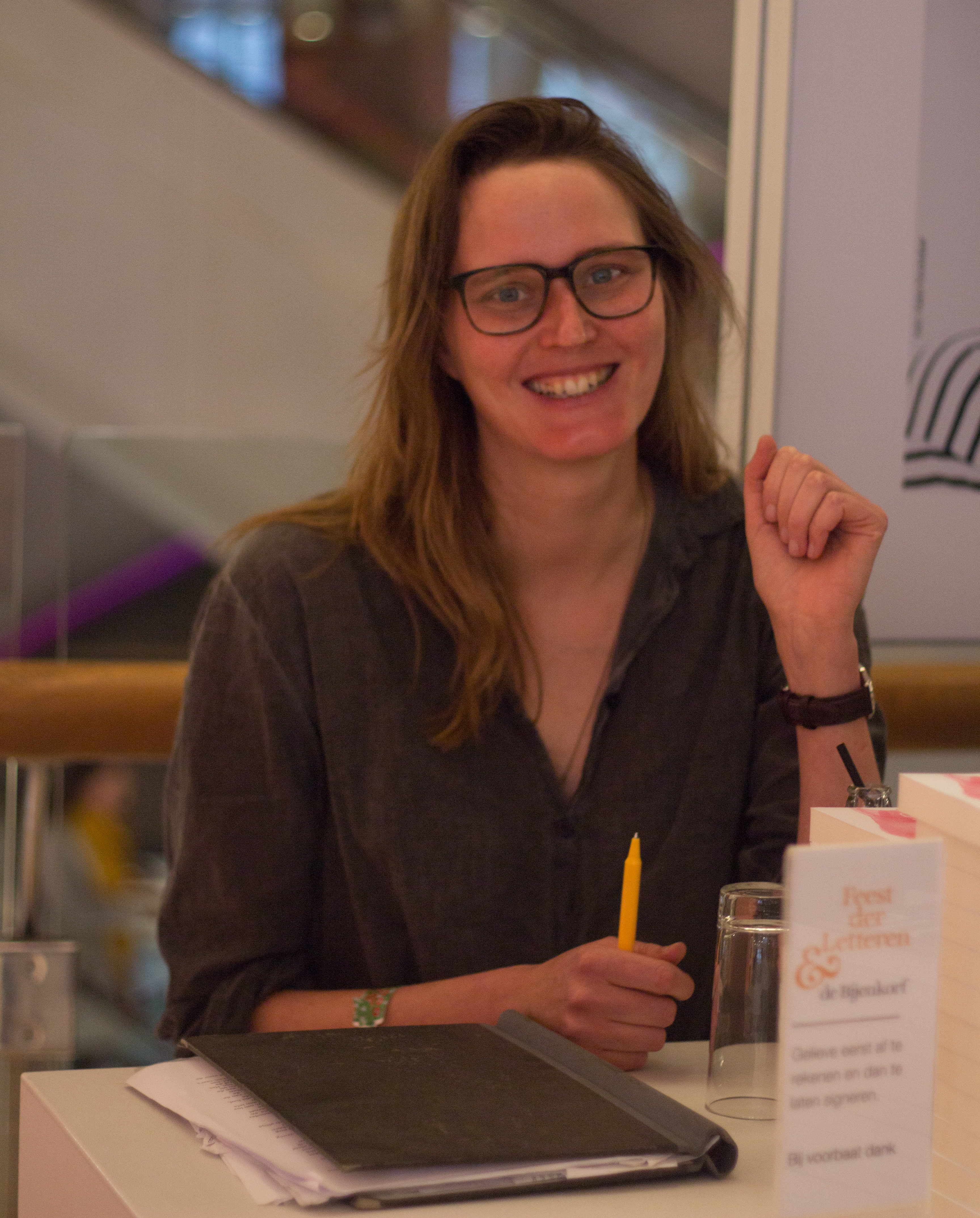 Feest der Letteren 2016